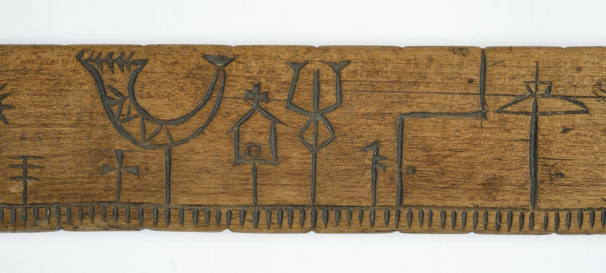 Runic calendar from Vang, Oppland, Norway. Closeup from the winter side showing the days of Christmas.